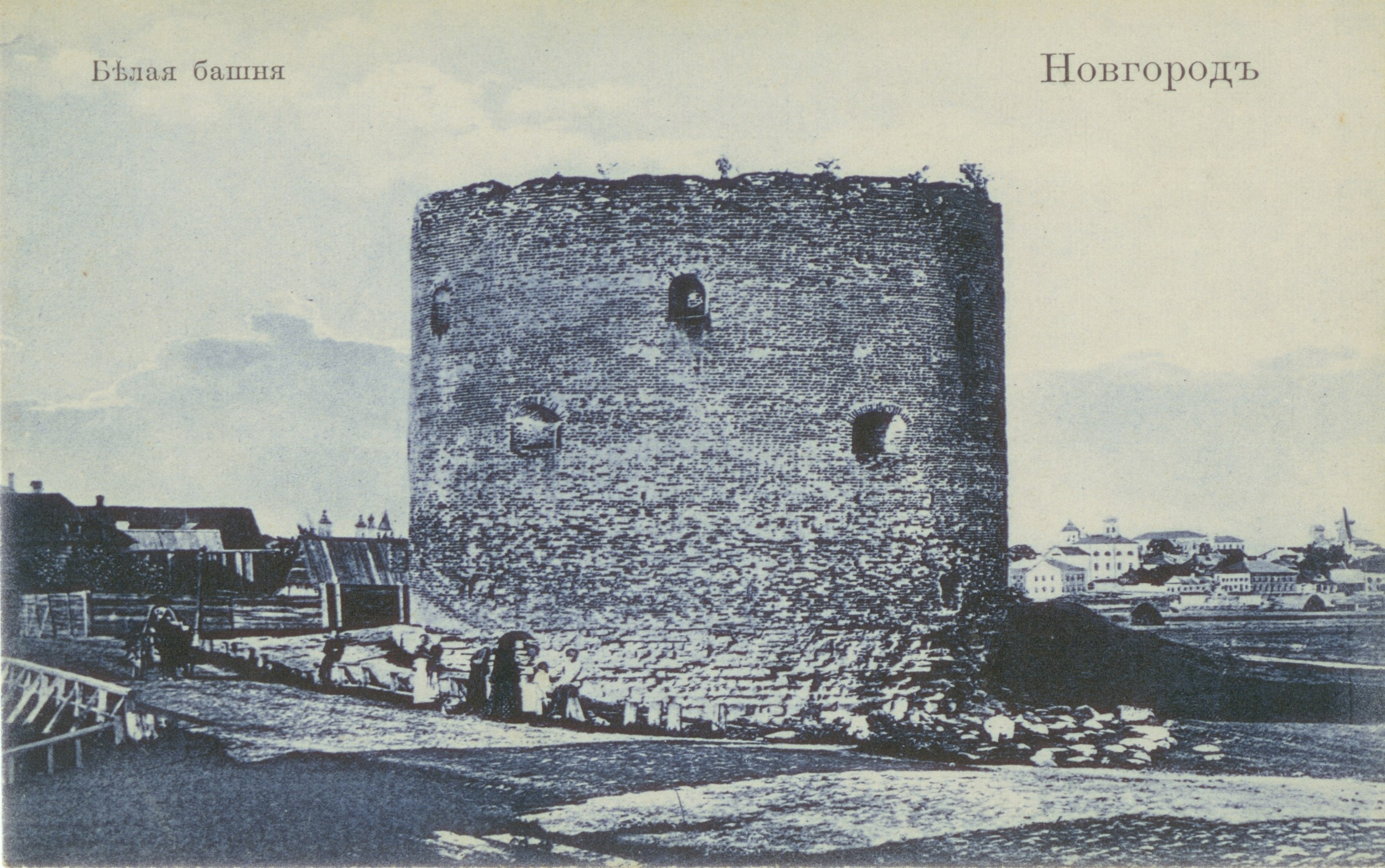 Alekseevskaya Tower